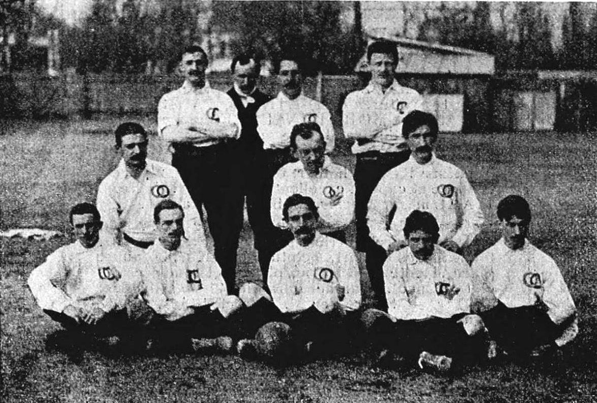 Football team of France, at Parc des Prince.